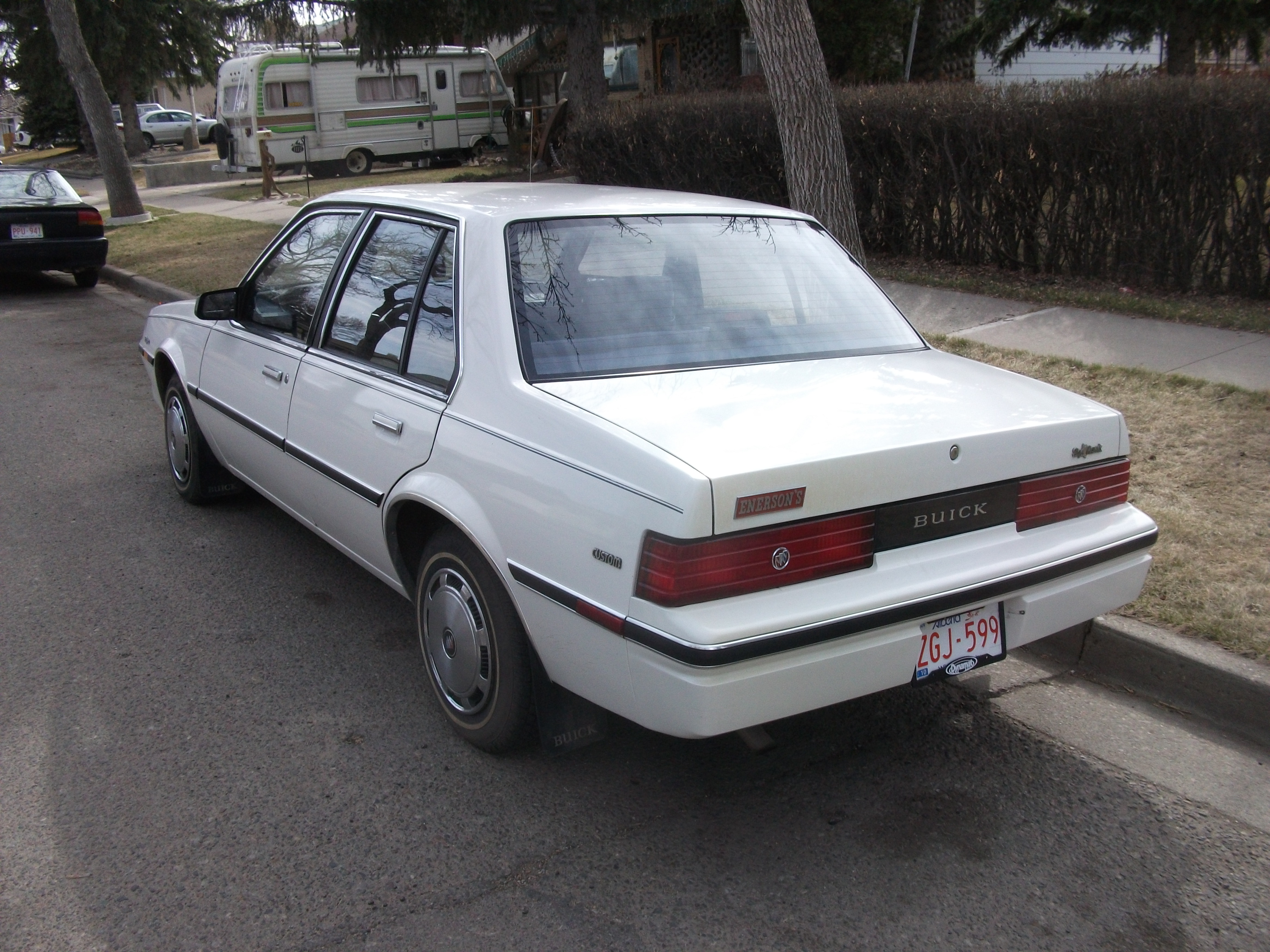 Buick Skyhawk in fantastic shape.